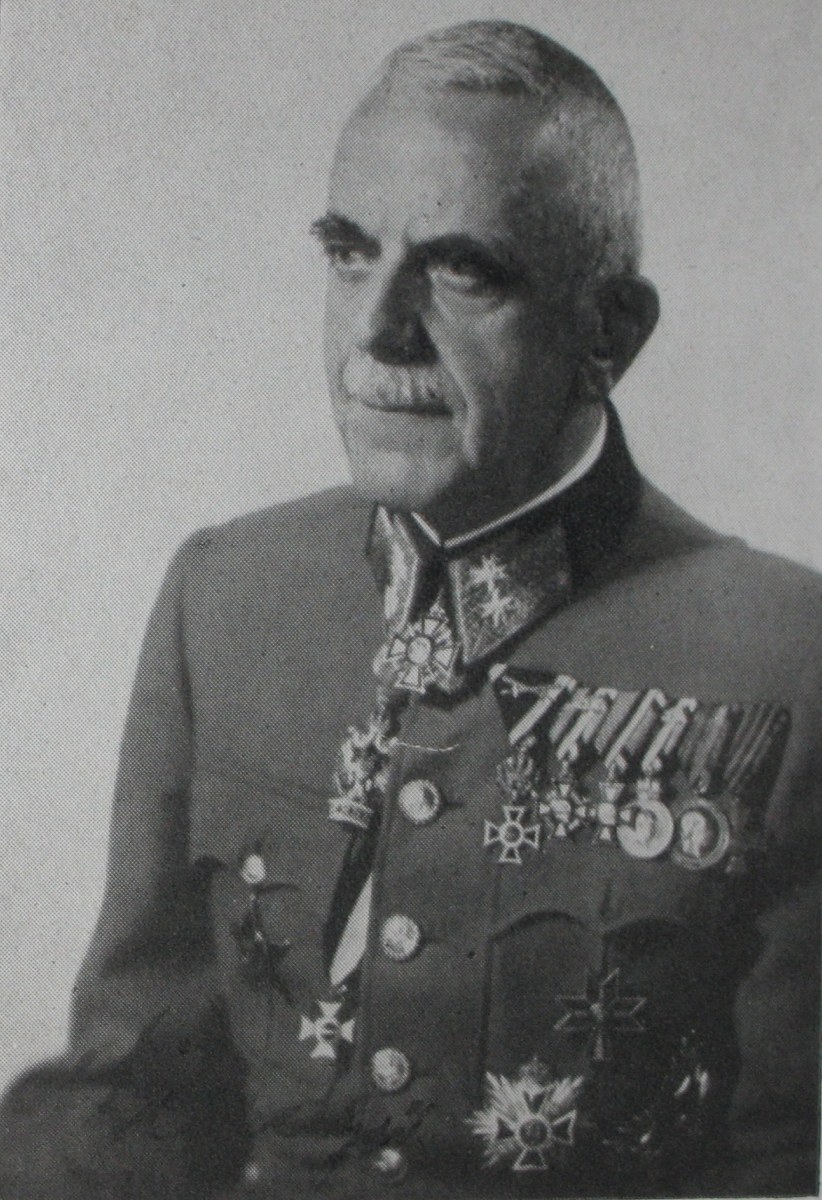 Croatian general Vladimir Laxa in the Croatian Home Guard uniform.